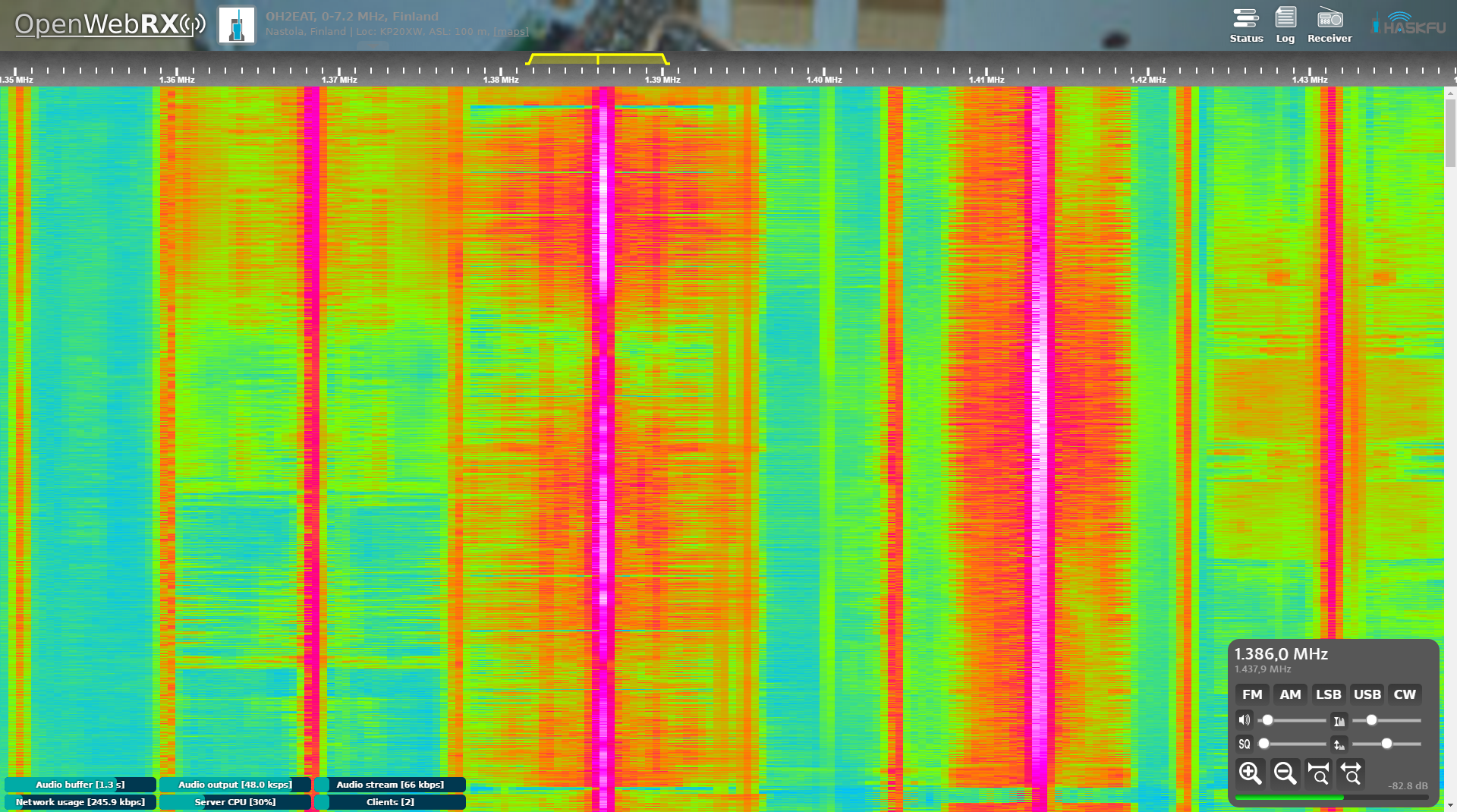 An OpenWebRX screenshot of 1386 kHz Sitkunai, Lithuania